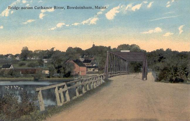 Bridge across the Cathance River, Bowdoinham, Maine